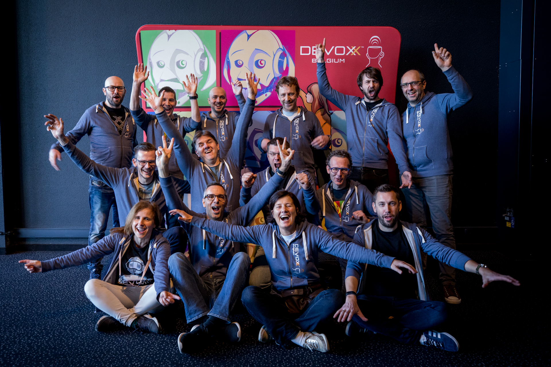 Part of the Devoxx Belgium team on Friday, the last day of the event.